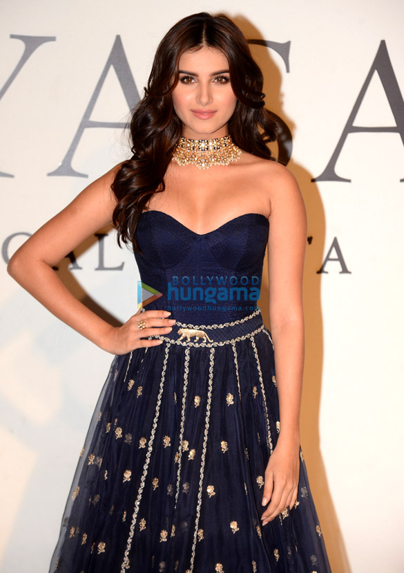 Tara Sutaria at the Sabyasachi and Christian Louboutin fashion event. Tara sutaria in marjaavaan.